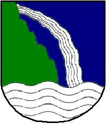 Coat of arms of Schwellbrunn, Canton of Appenzell Ausserrhoden, SwitzerlandEsperanto: Blazono de Schwellbrunn, Kantono Apencelo Ekstera, Svislando